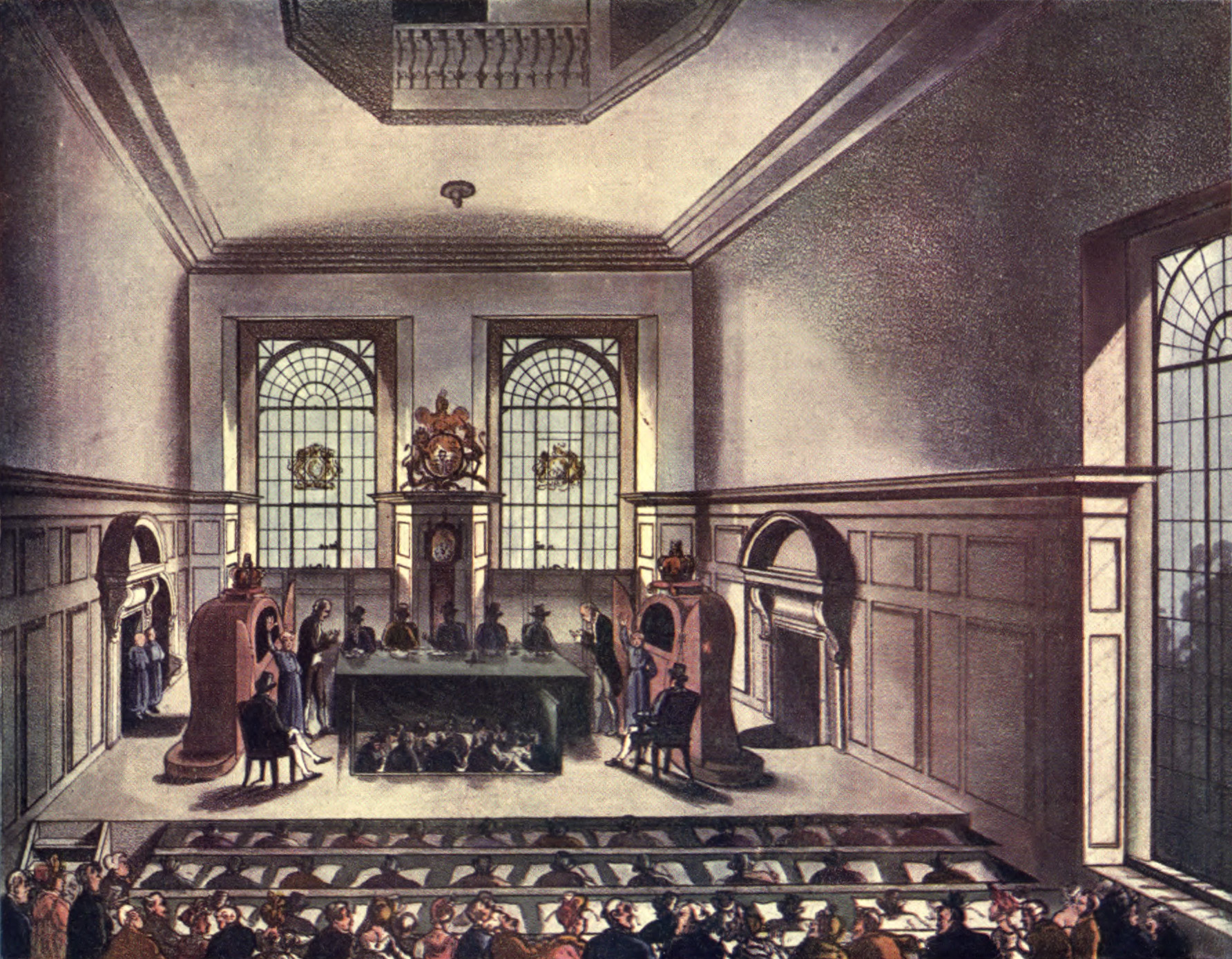 Lottery Drawing, Cooper's Hall